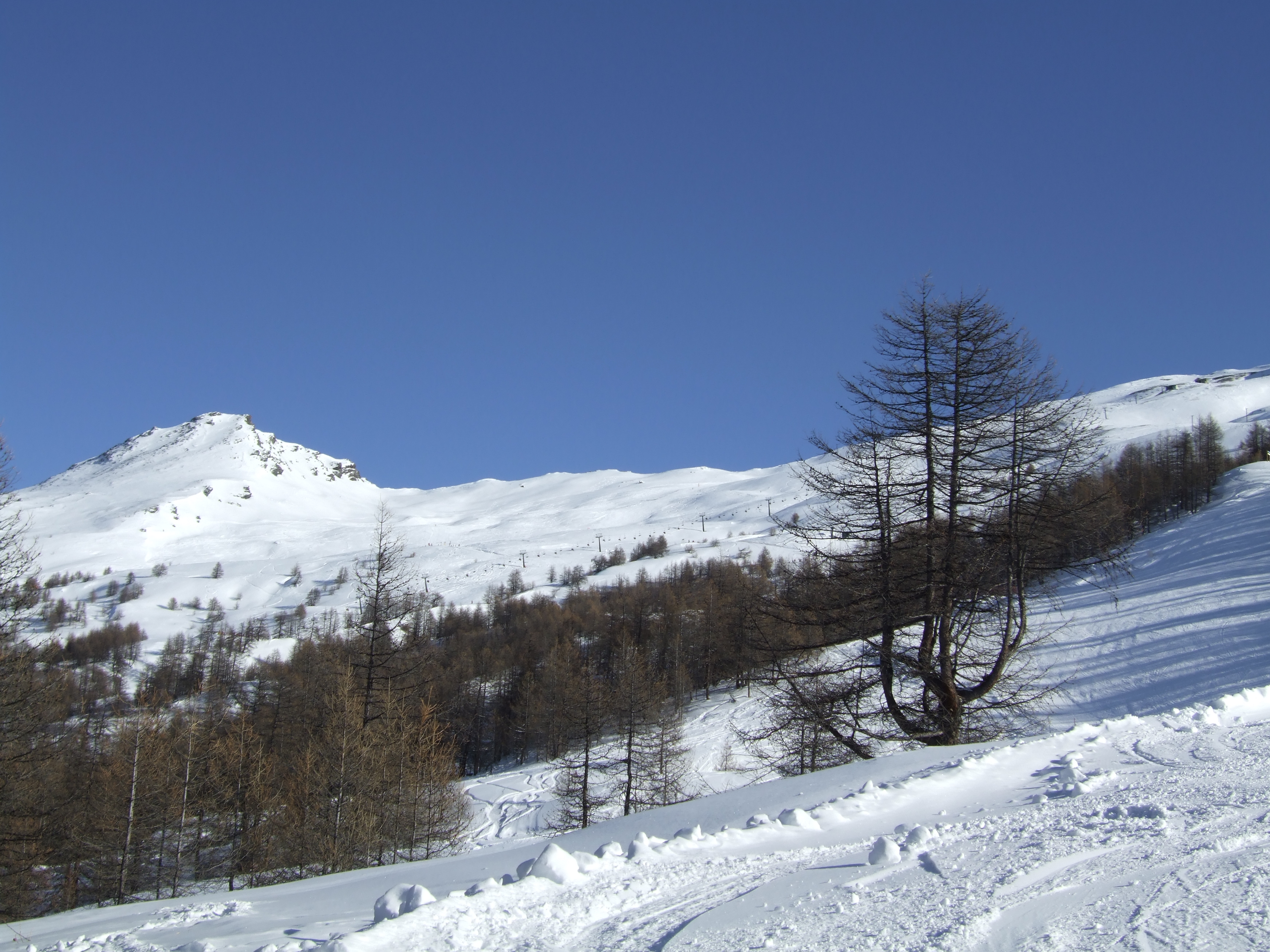 Mount Jafferau (Italy) - Winter Sight